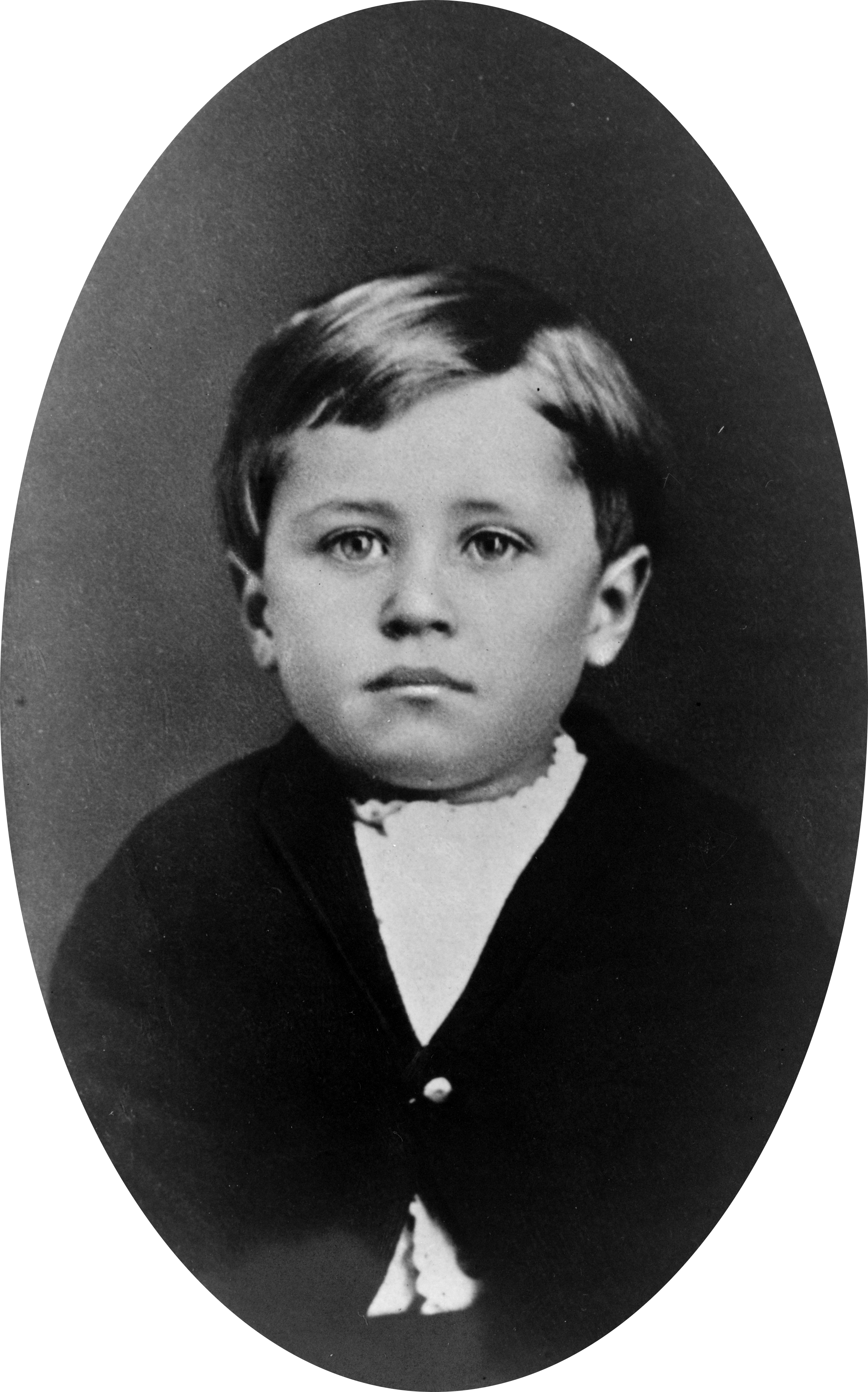 Young Orville Wright.